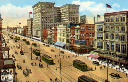 Canal Street, New Orleans, scanned from 1920s postcard, no copyright note. View from the uptown side, around Carondolet, looking lakewards. The photo apparently predates the Pearly Thomas 400 streetcars replacing the smaller trolleys seen in the photo. The photo might have been taken in the 1910s, with more autos added by a postcard company artist. The majority of the buildings visible are still there today, but the cast iron balconies were removed in a 1920s "modernization" project.